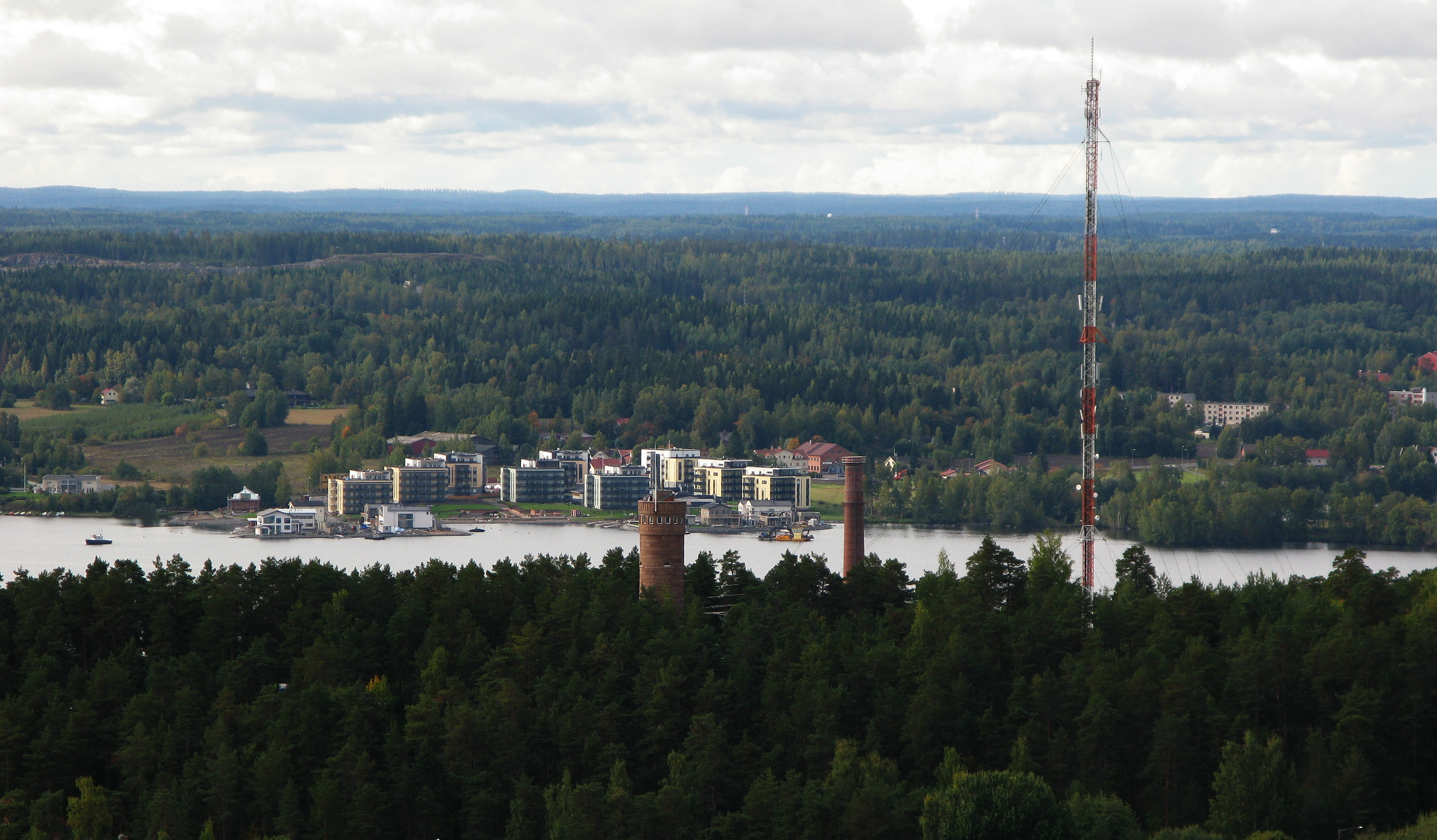 A view to Pyynikki from Näsinneula observation tower in Tampere, Finland